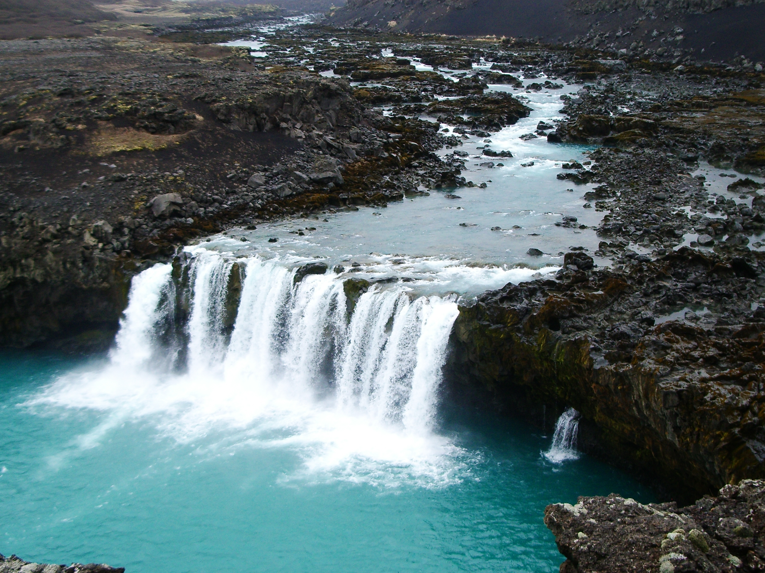 The waterfall Þjófafoss viewed from Merkurhraun lava fields